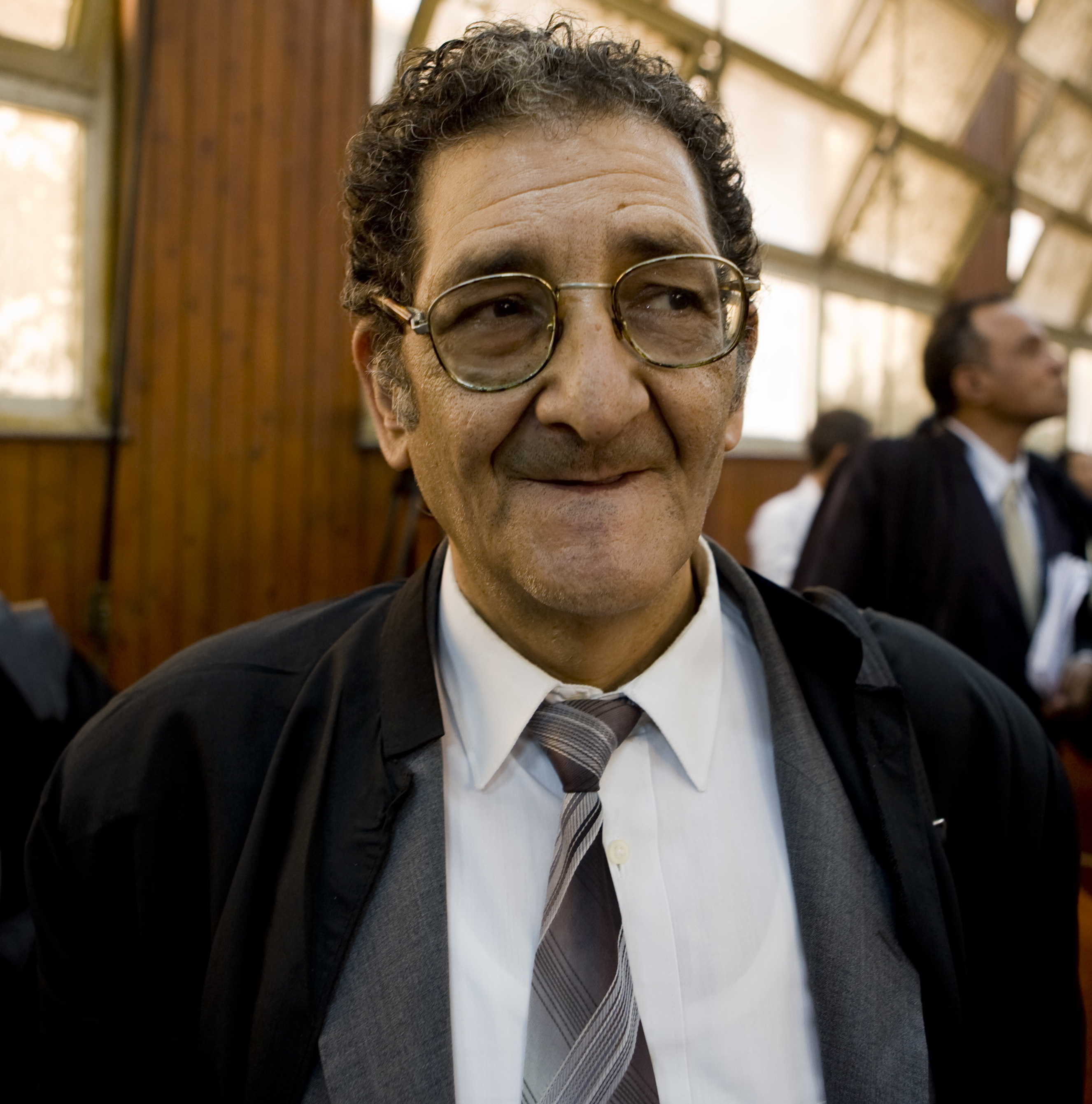 I traveled to Tanta on Saturday morning to try to attend the Mahalla 49 trial.. As soon as I arrived in the city’s train station, I was shocked by the heavy security presence around Tanta’s Court which is literally few steps away from the station.